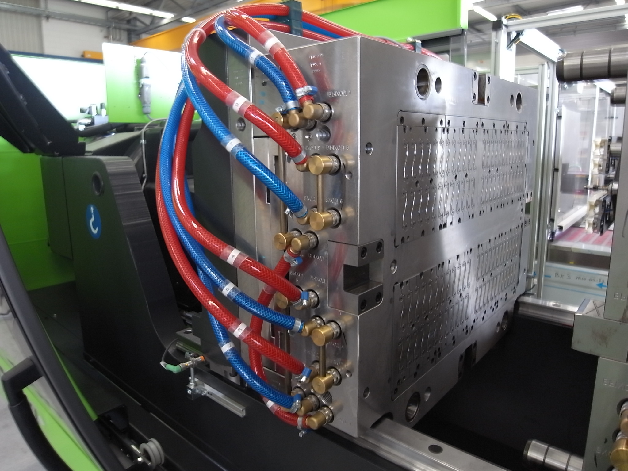 Mould Injection Moulding